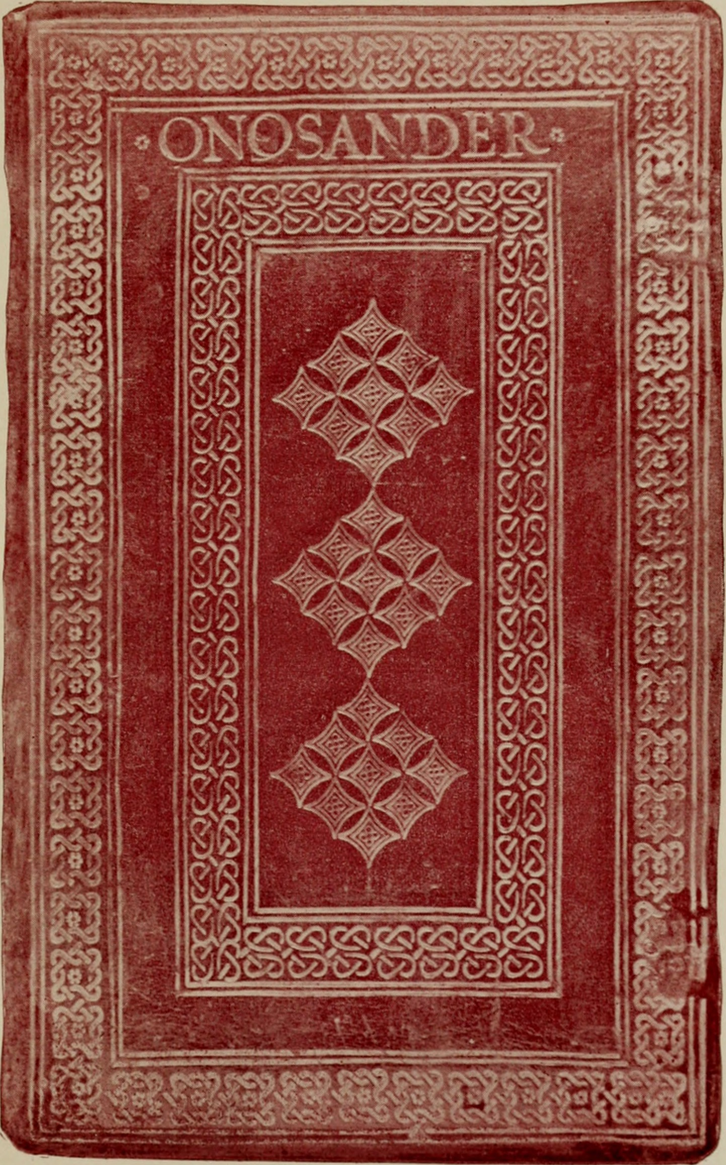 Title: The binding of books; an essay in the history of gold-tooled bindings Year: 1894 (1890s) Authors: Horne, Herbert Percy, 1864-1916 Cobden-Sanderson, T. J. (Thomas James), 1840-1922 Cockerell, Douglas Subjects: Bookbinding -- History Publisher: London, K. Paul, Trench, Trübner & Co., Ltd. Text Appearing Before Image: ound in red morocco, and theborders are tooled in gold. It is said to have comefrom the library of Lorenzo de Medici; and its bind-ing was apparently executed at the beginning of thesixteenth century. The characteristics of this Flor-entine manner would be difficult to describe, as theelements of design and the methods of workmanship,which accompany it, differ but slightly, from thoseused by the Venetian binders: but upon a com-parison, the difference between the two manners issufficiently obvious. The binding of a copy of theEnchiridium Grammatices, of Eufrosino Bonini, Flor-ence, 1514, also in the British Museum (C. 66. d. 9.),affords another instance of Plorentine workmanship,unlike either of the foregoing examples. This book,which is figured in Plate IV., is covered in brownmorocco ; and bears a cameo in high relief of JuliusCaesar, repeated on either cover, and sunk into theboards, which are of wood, and of an unusual thick-ness. By this device, the projecting surfaces of the IV. Text Appearing After Image: ONOSANDER BINDING.